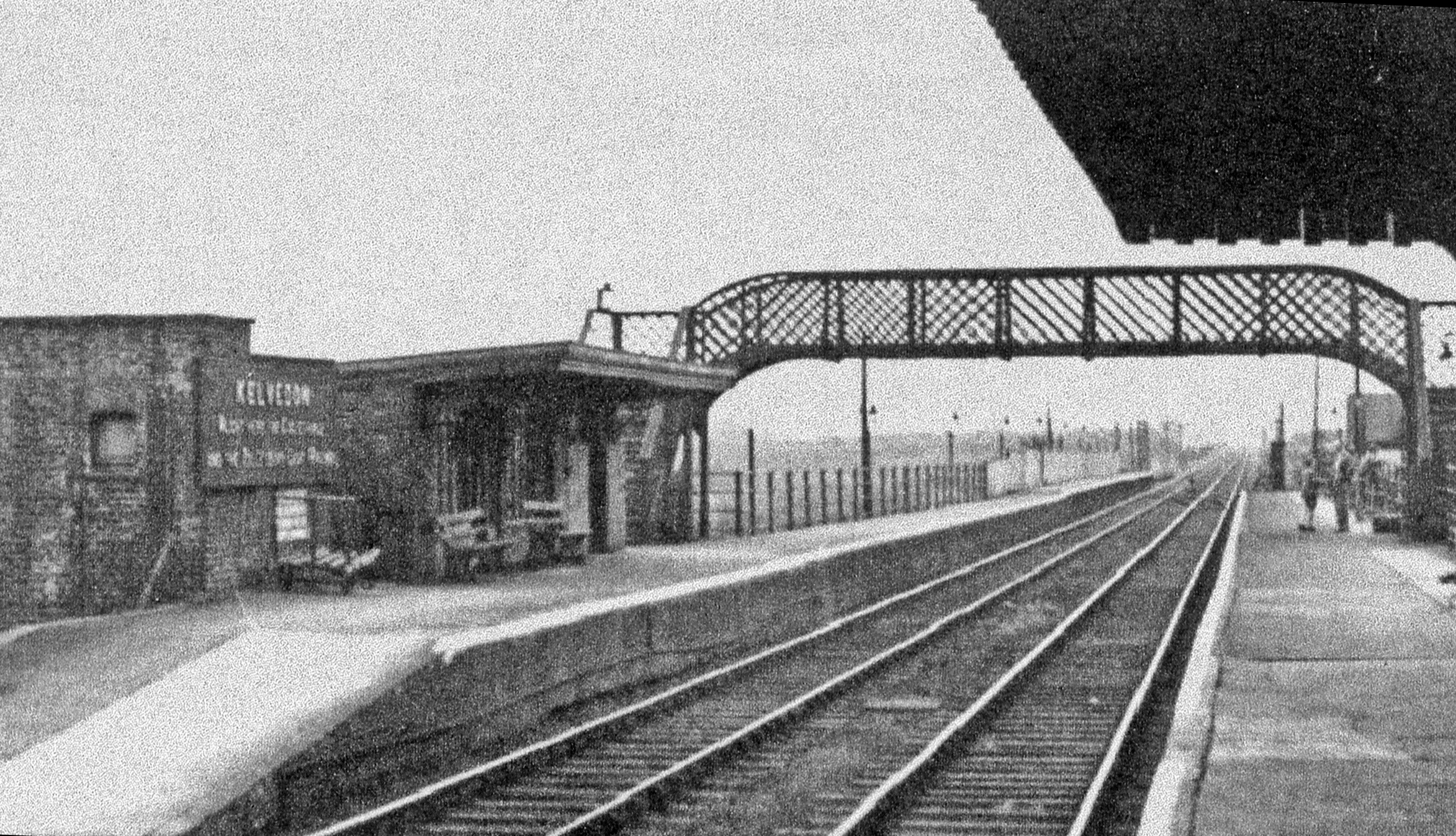 Kelvedon (High Level) station, 1950View NE, towards Ipswich etc. on the ex-GER Liverpool Street - Colchester - East Anglia main line. The Low Level station was c. 200 yards ahead, to the right and below.